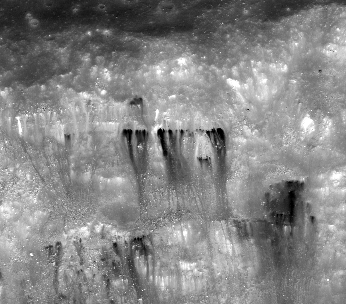 Northern flank of Diophantus crater. LROC NAC M124797072L, 0.56 m/pixel, image width is about 678 m. Illumination is from the bottom of the image, downslope direction is from top to bottom of the image [NASA/GSFC/Arizona State University].